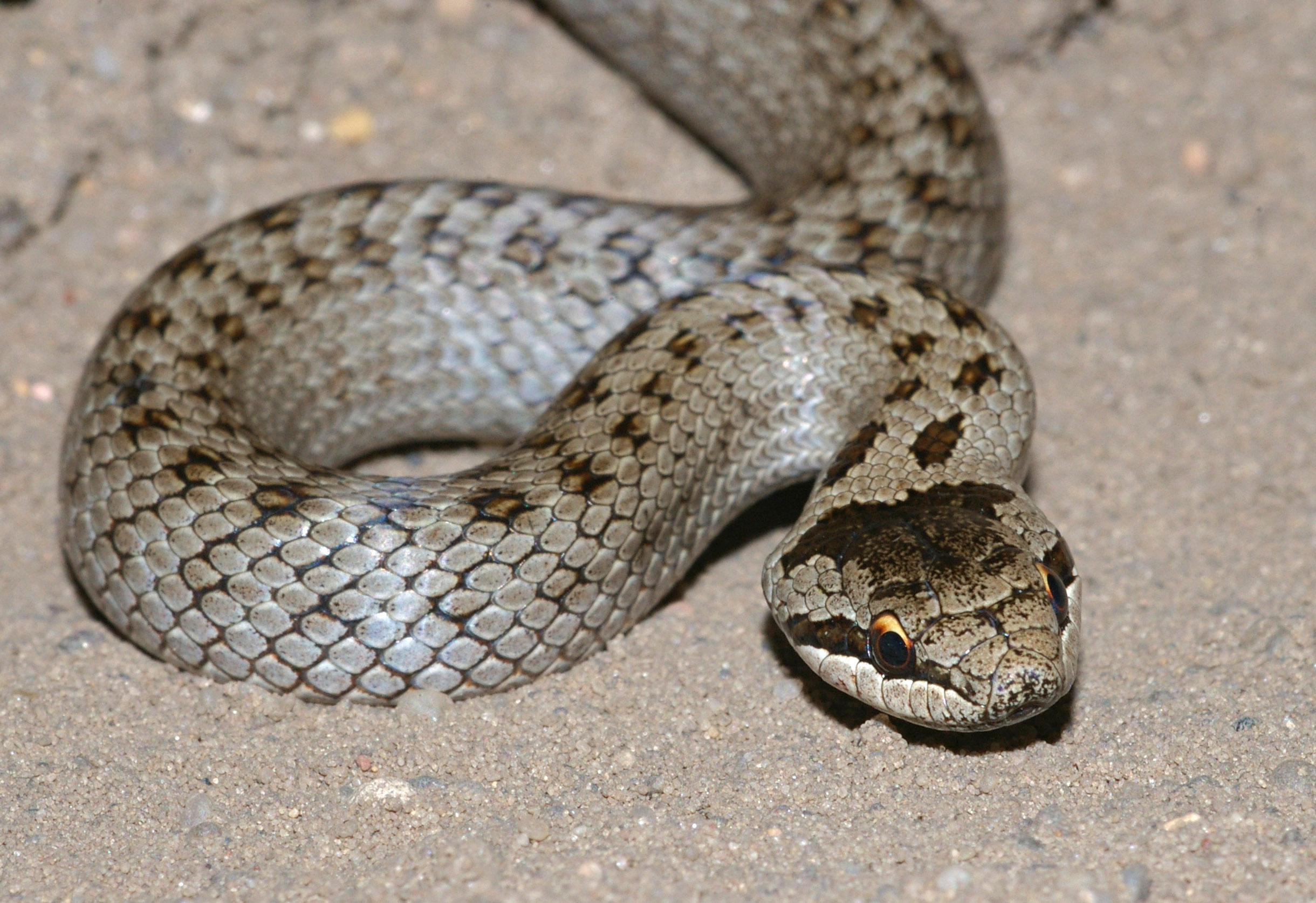 Detail of a Smooth Snake, Coronella austriaca. This is a young specimen (probably second life year) with an estimated length of 25 cm and a body diameter of about 10-12 mm.